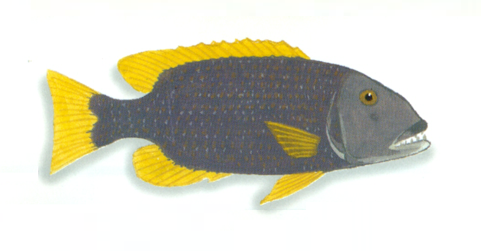 Lethrinus_erythracanthus